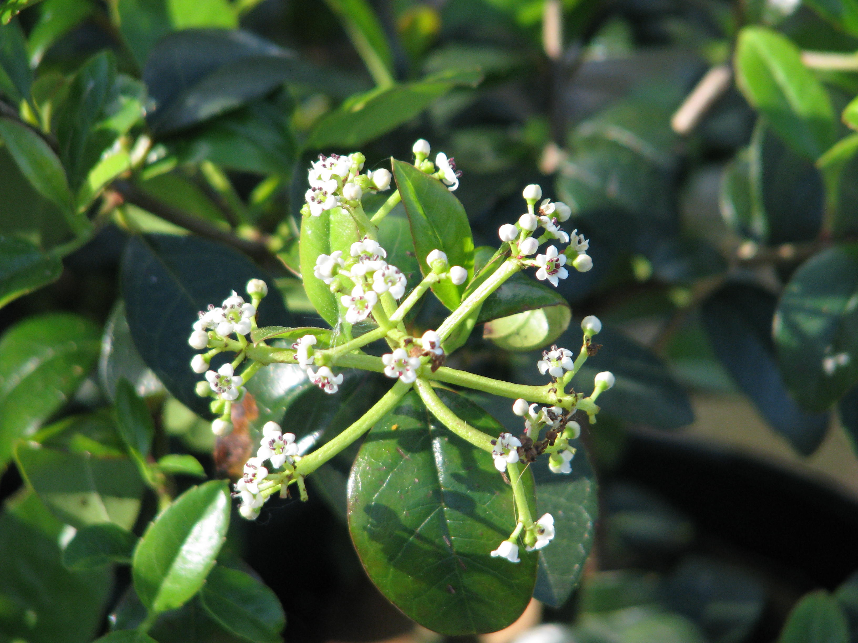 A very pretty small glossy leaved species - eventually probably quite big but relatively slow and compact so far